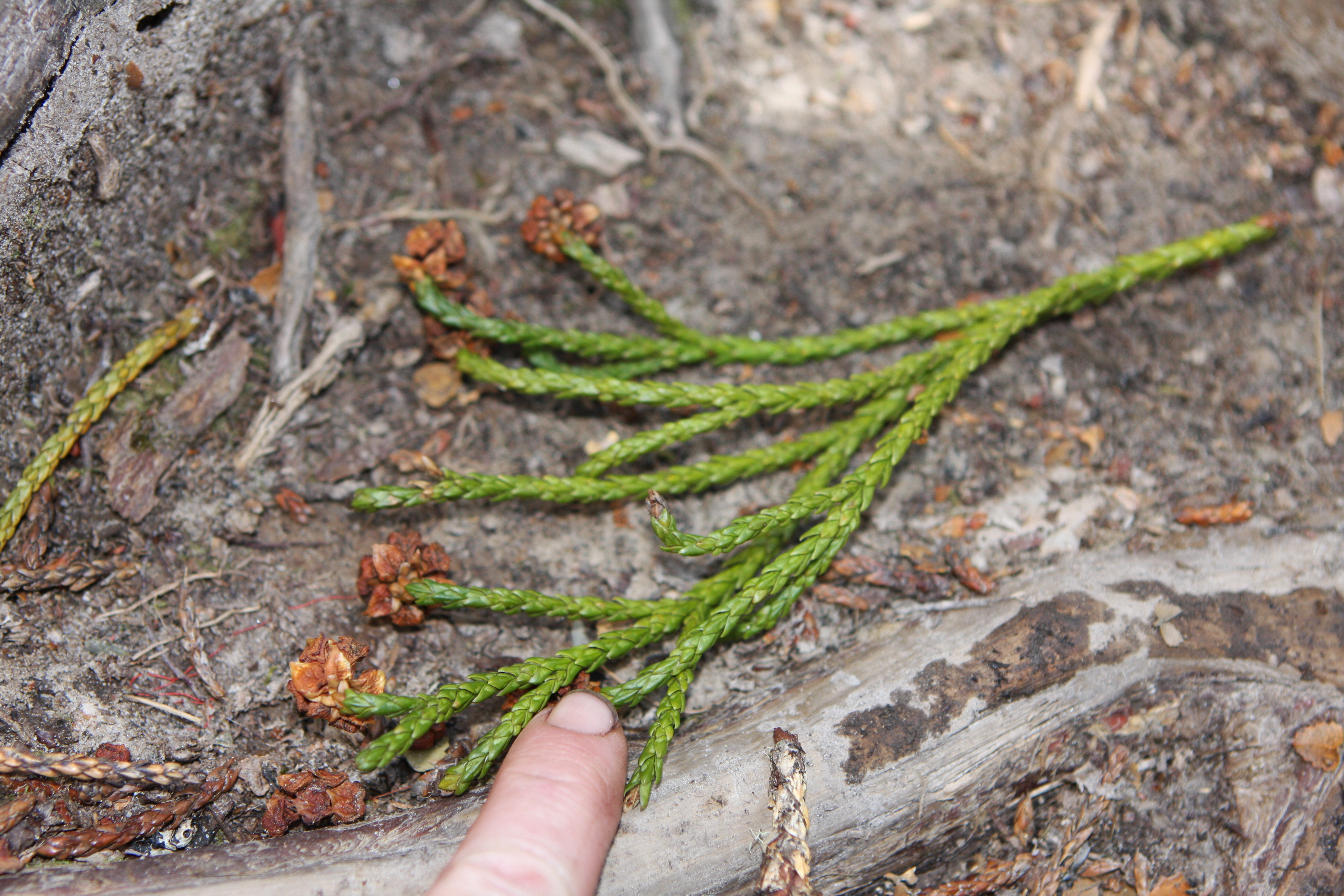 Athrotaxis laxifolia These trees are thought to possibly be a hybrid of Athrotaxis cupressoides (Pencil Pine) and Athrotaxis selaginoides ( King Billy Pine) because individual trees are only found in areas where both of the other species occur. The foliage is also intermediate in appearance between the other two species Day 4 of Overland Track Australia oz2009 276